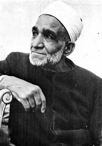 Photograph of Mahmud Shaltut during his time as a religion talk show host on the radio